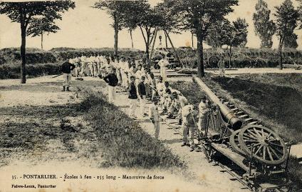 A 155 Long (de Bange) being hauled into position at the Pontarlier artillery school